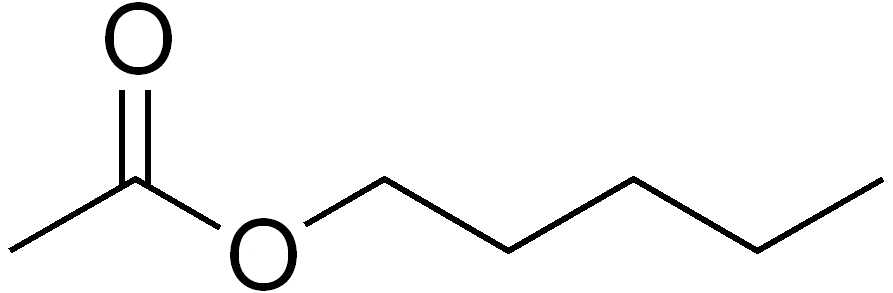 Chemical structure of amyl acetate created with ChemDraw.